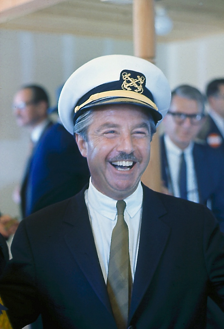 Walter Landor, founder of Landor Associates. This photo was likely taken aboard the Klamath offices in the 1970s.